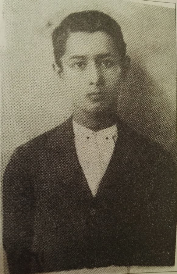 Parviz Natel-Khanlari